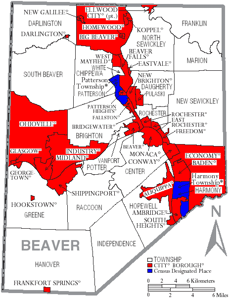 Map of Beaver County, Pennsylvania, United States with township and municipal boundaries